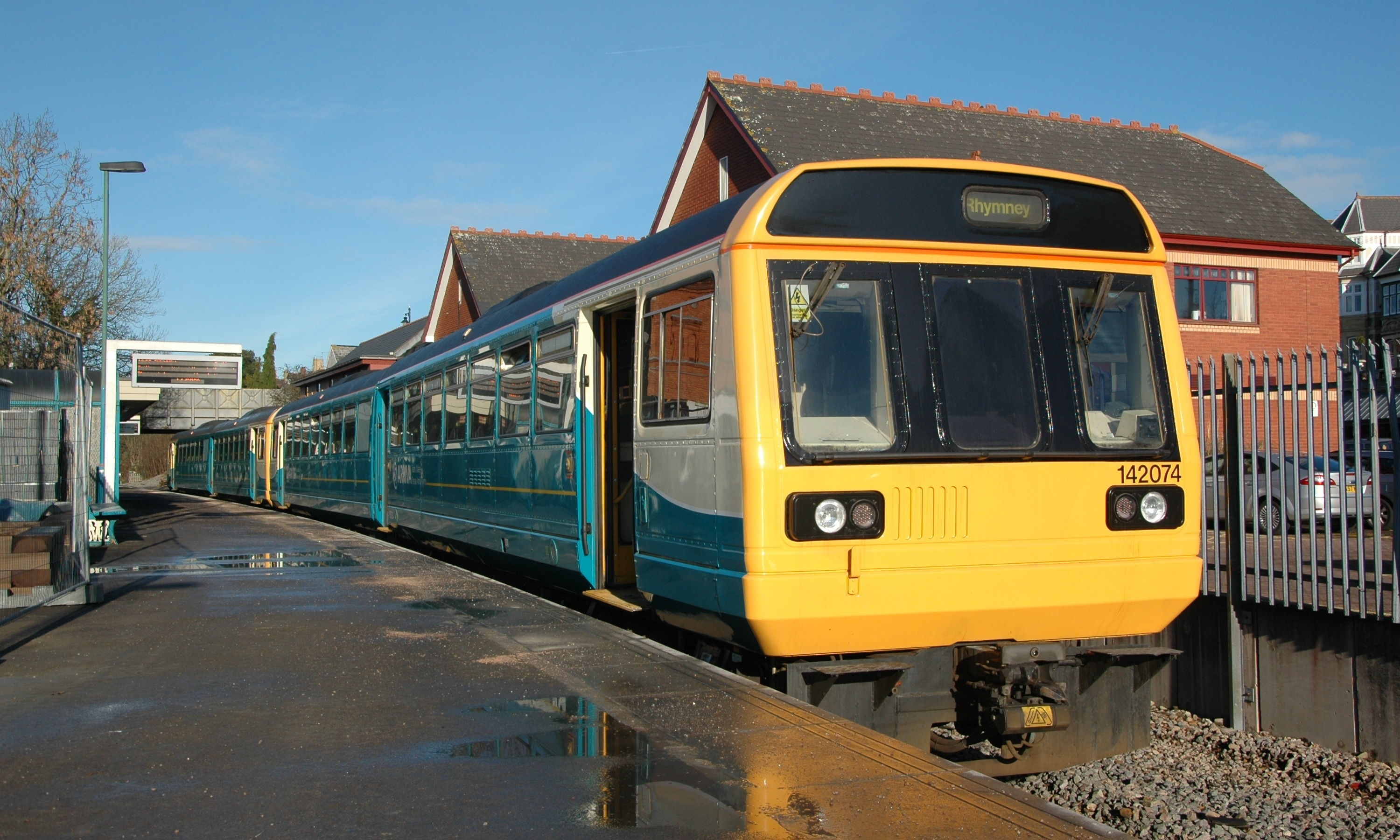 Class 142 train in Arriva Trains Wales livery at Penarth railway station, Vale of Glamorgan, Wales.